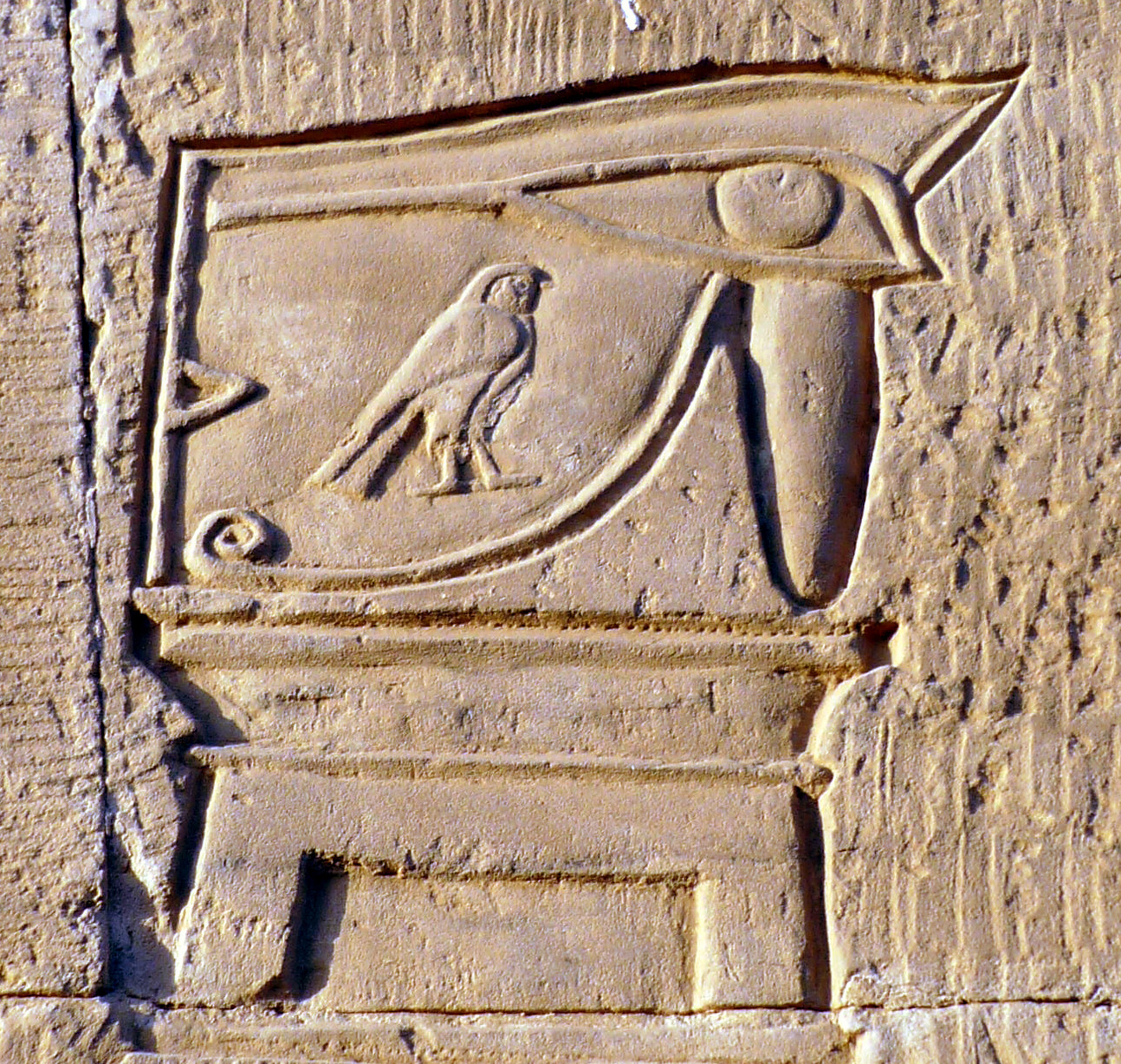 Wall relief of udjat, Kom Ombo Temple, Egypt